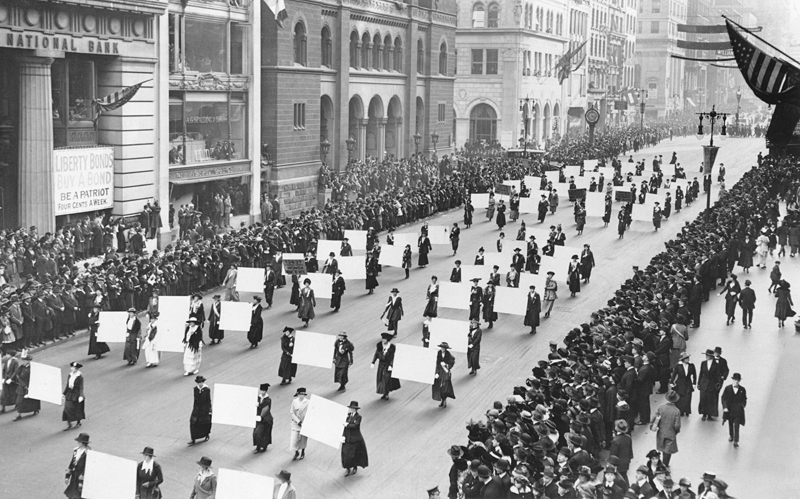 Suffragists "march in October 1917, displaying placards containing the signatures of over one million New York women demanding to vote."